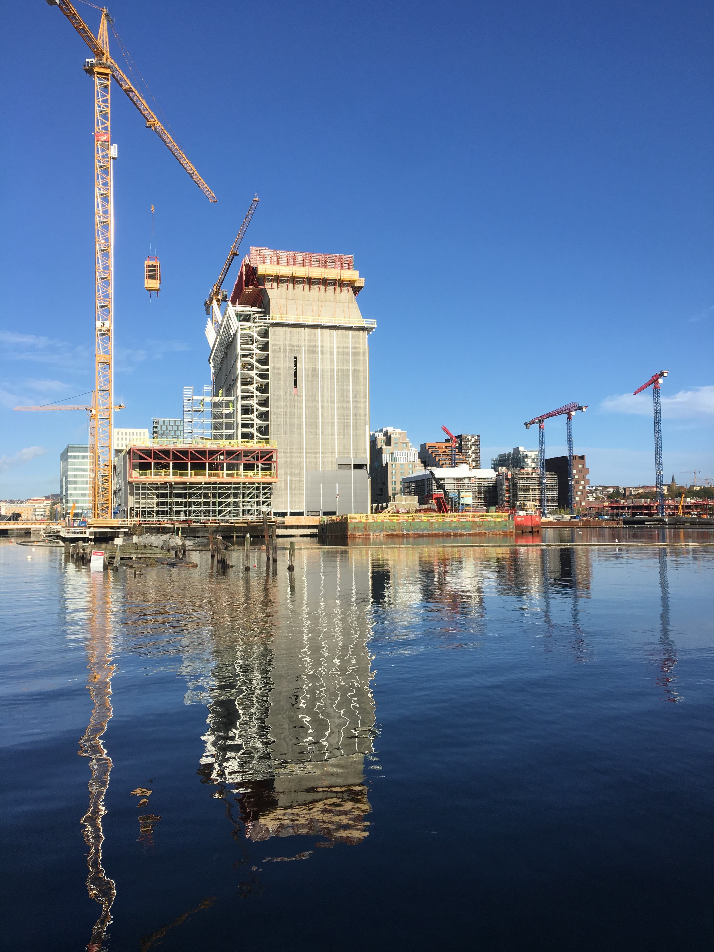 The New Munch Art Museum being built in Bjørvika, Oslo